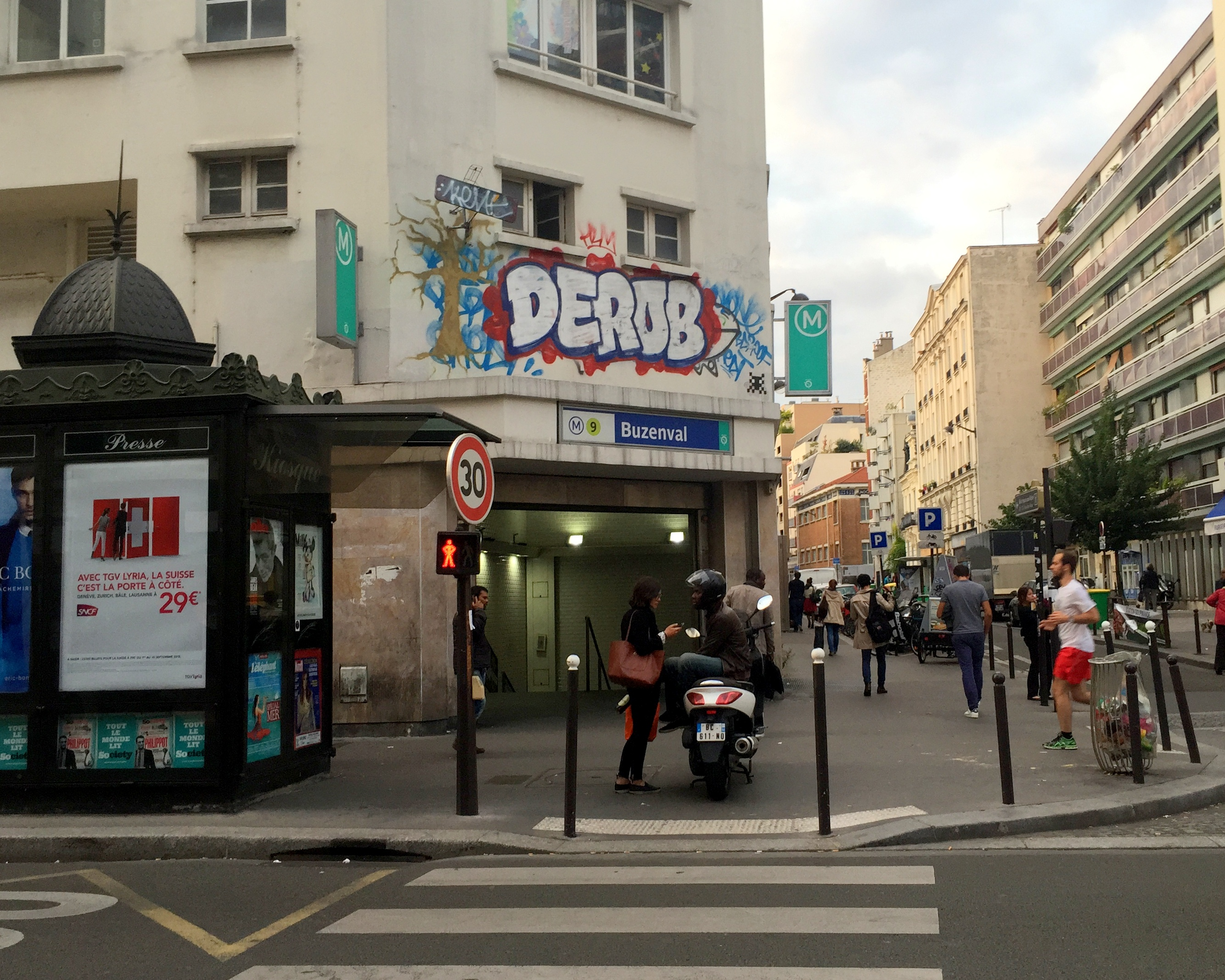 This image was uploaded as part of L'Été des villes 2015.